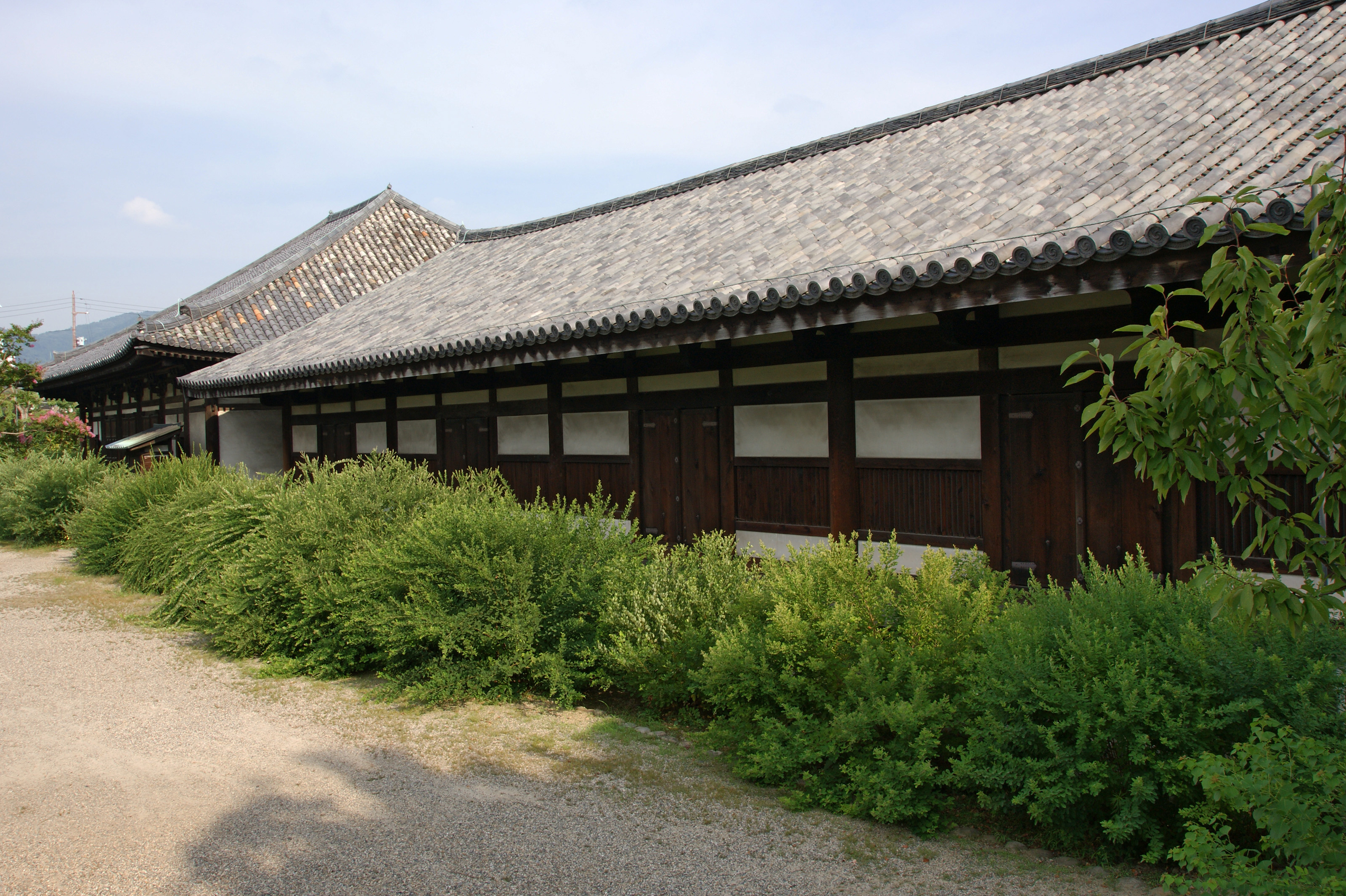 Gangō-ji in Nara, Nara prefecture, Japan